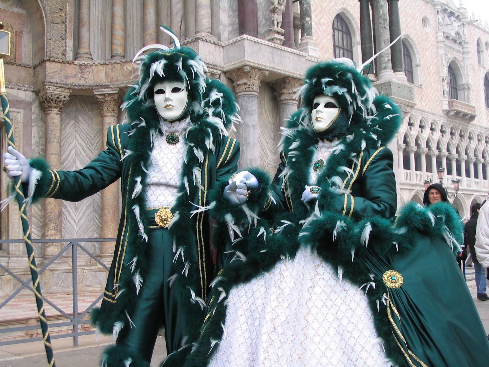 Batch Photo By wanblee =